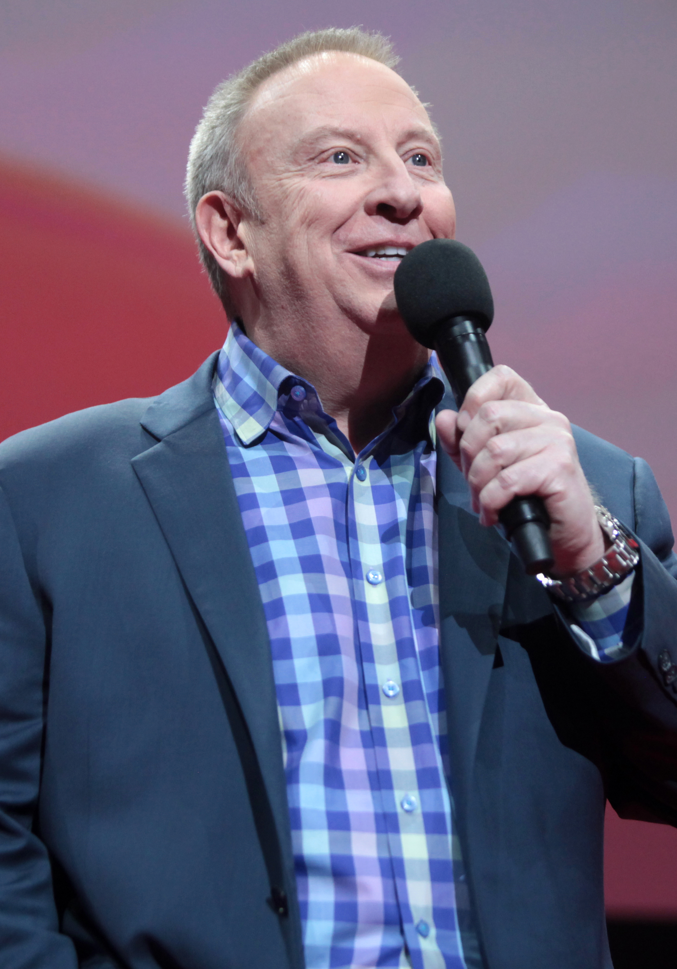 Mike Gallagher speaking in Greenville, South Carolina.